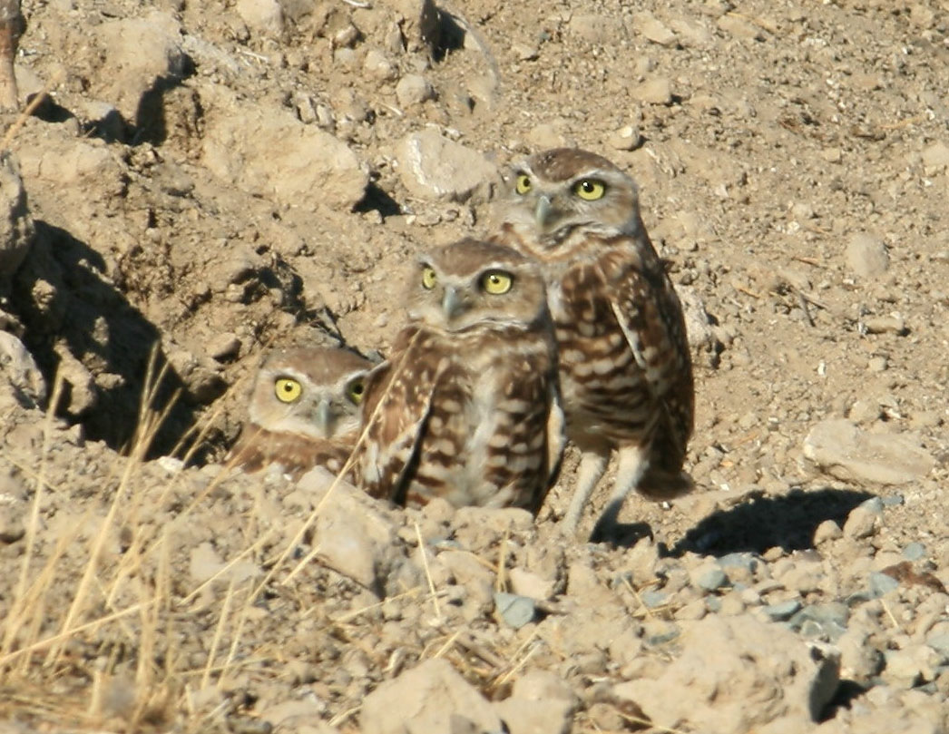 Burrowing Owl family in Antioch, California